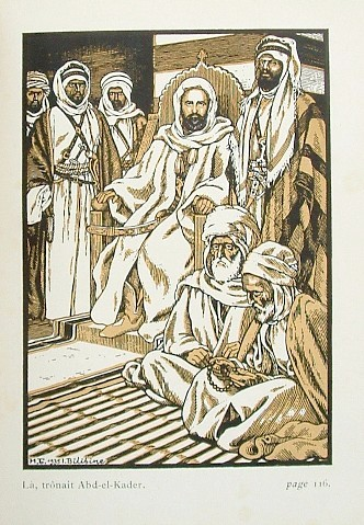 Bilibine [Bilibin]) Ch. Quinel, A. de Montgon LE FAROUCHE ABD-EL-KADER. First Edition? Paris: Fernand Nathan, 1936 Cover and illustrations by Ivan Bilibin (Jean Bilibine). Text in French. Hardcover. 188, (2) pp. Illustrations on plates.